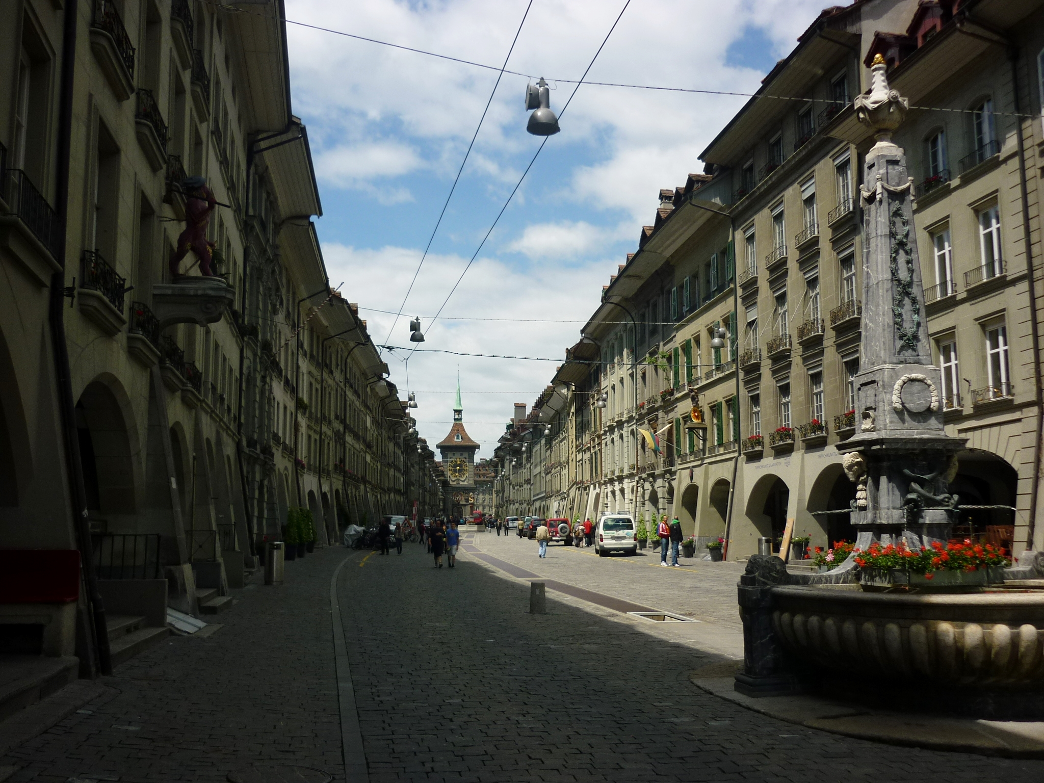 Historic center, Bern